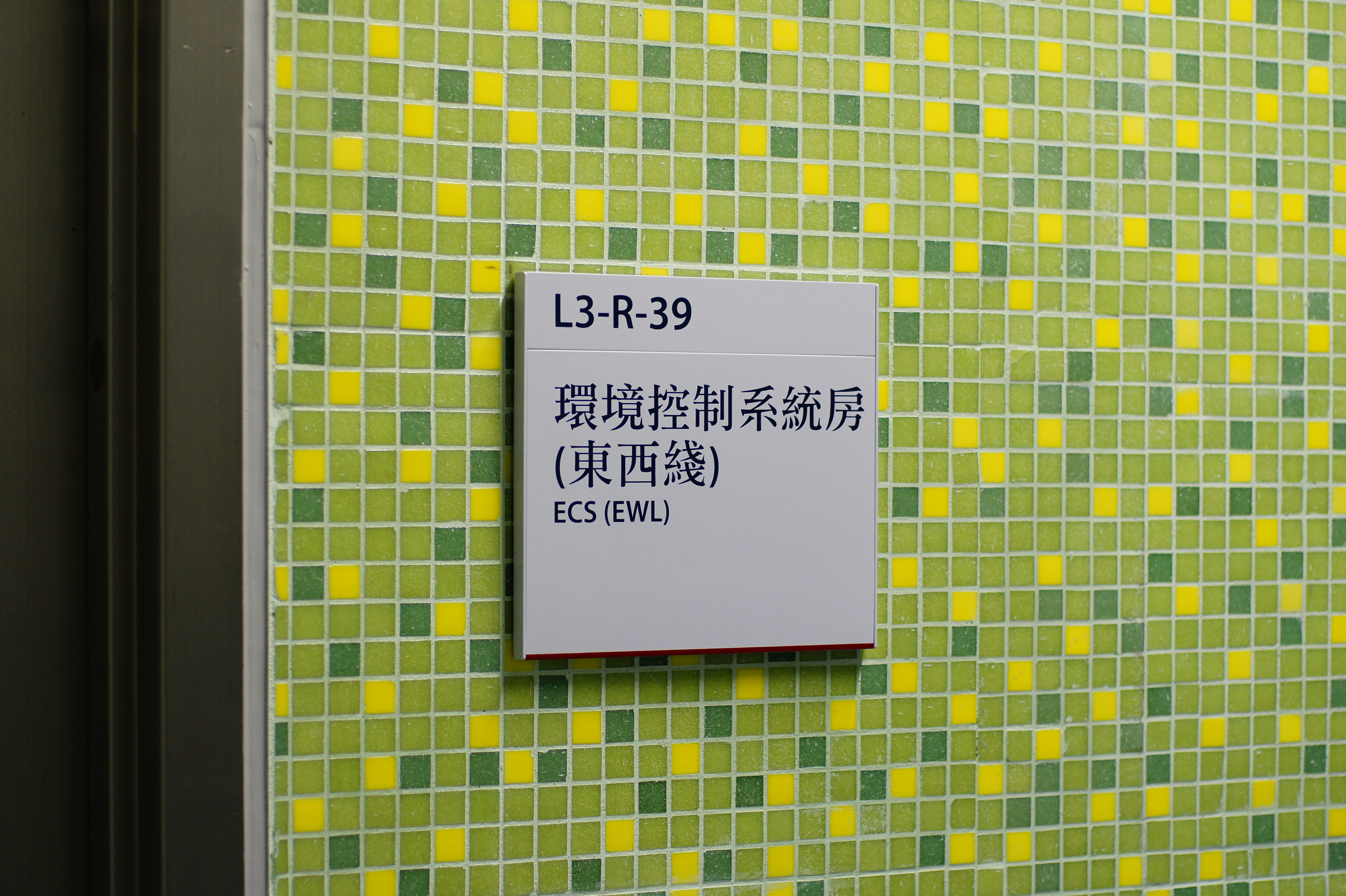 MTR Ho Man Tin Station level L3